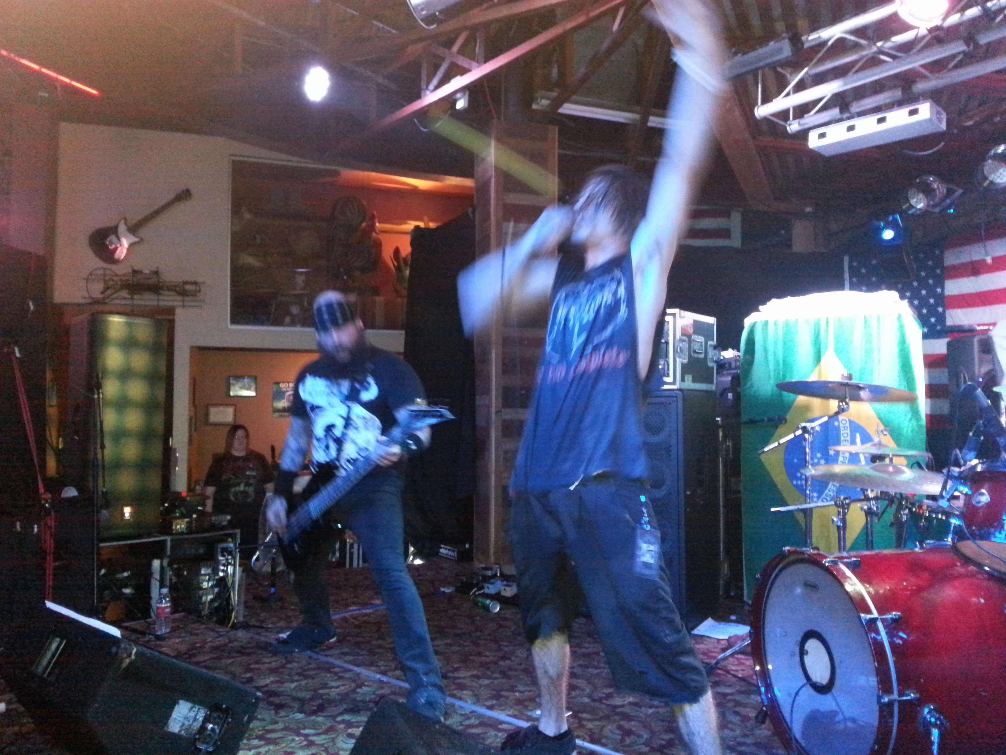 Incite performing with bassist Christopher El of Arizona rock band Autumn's End